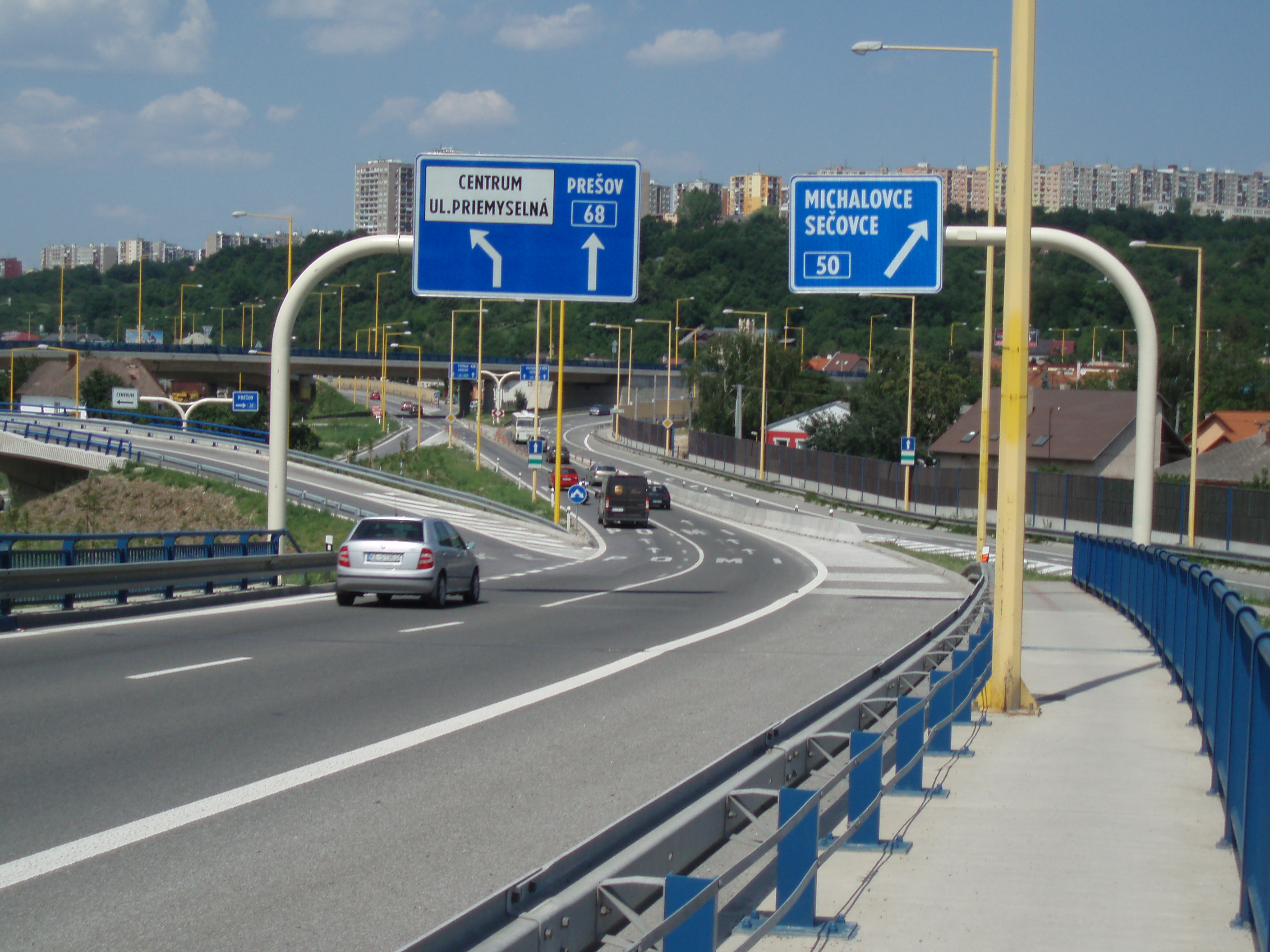 Fly-over junction Prešovská-Sečovská in Košice